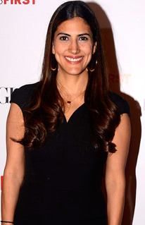 Parizaad Kolah grace the screening of Ladies First